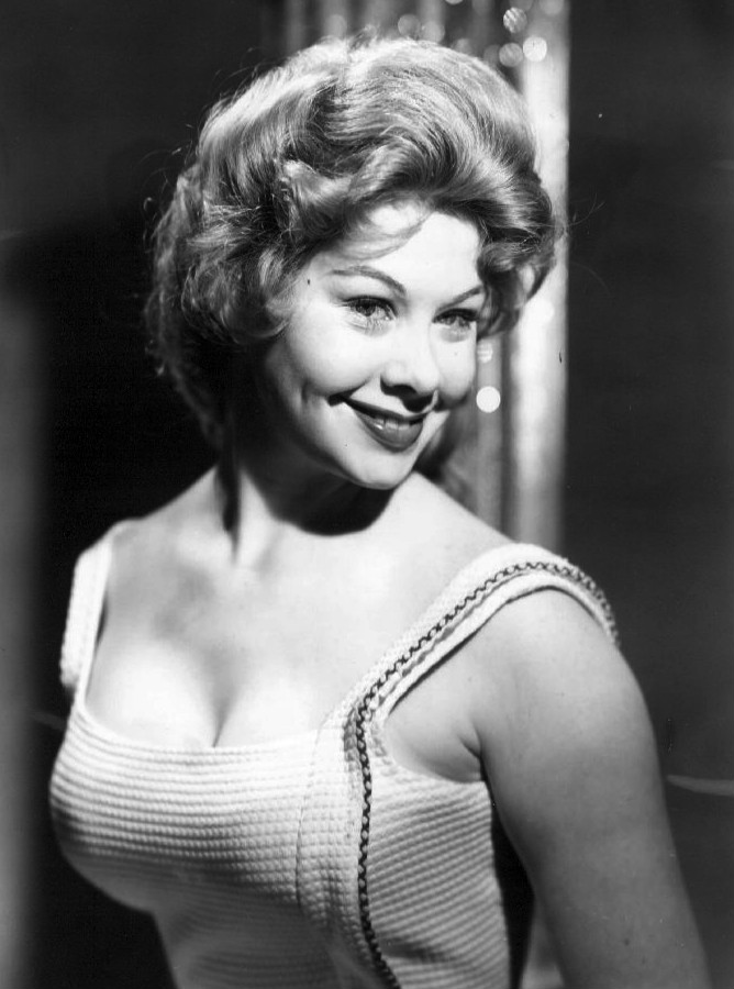 Photo of Sue Ane Langdon from her regular appearances on The Steve Allen Show. Langdon announced the guests who would be featured on the show in days or weeks to come.